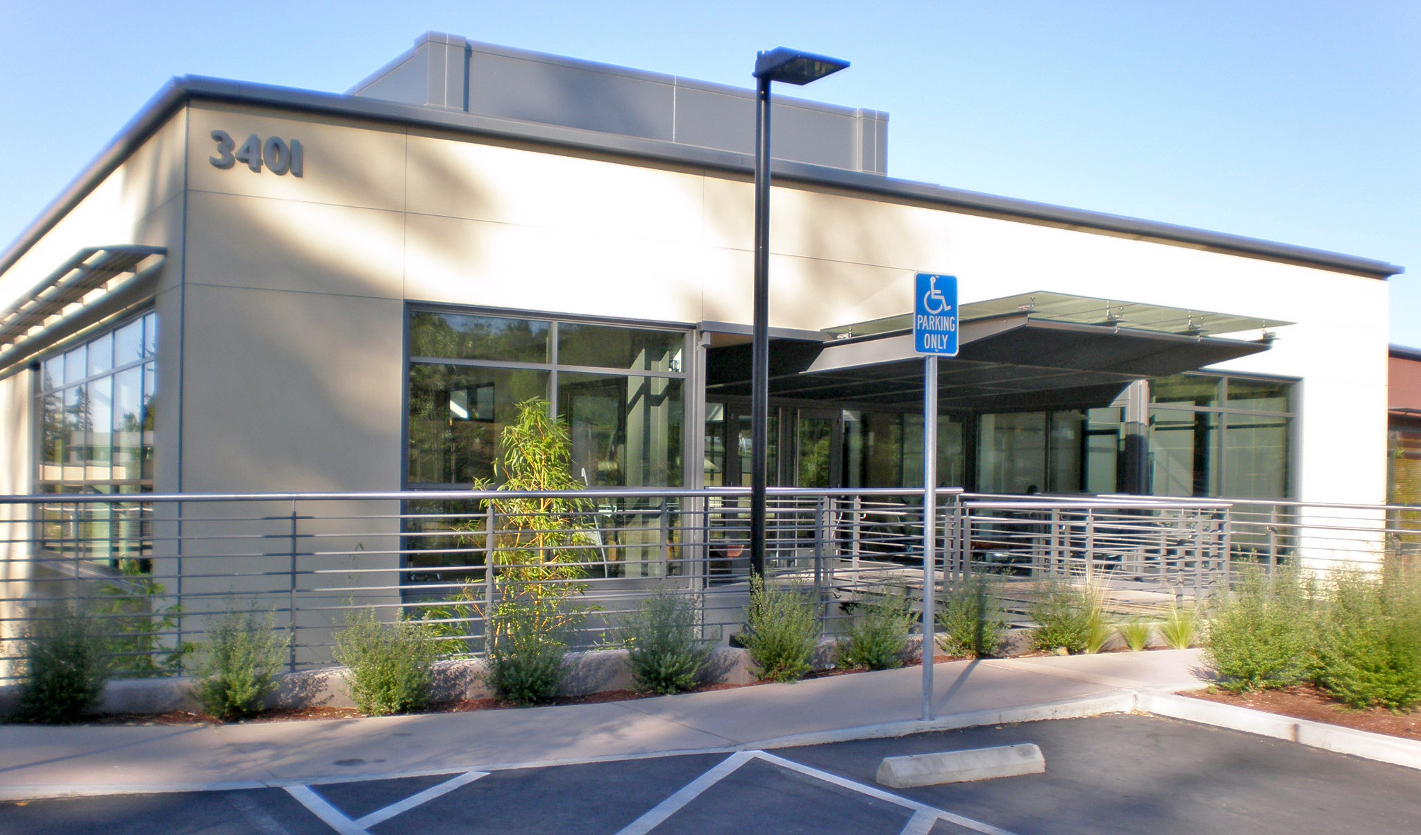 The entrance to the VMware headquarters at 3401 Hillview Avenue in Palo Alto, California.